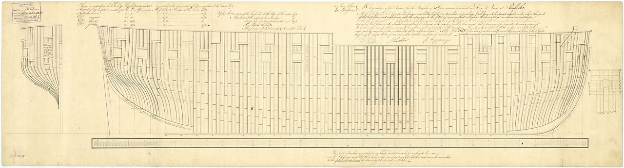 Nereus (1821); Hamadryad (1823); Thisbe (1824) Scale: 1:48. Plan showing the framing profile (disposition) for Nereus (1821), Hamadryad (1823), and Thisbe (1824), all 46-gun Fifth Rate Frigates building at Pembroke Dockyard. The plan would also have related to Druid (cancelled 1820) and Nemesis (cancelled 1820), prior to the names being re-assigned to two ships of the Seringapatam class. The plan includes details about how the timbers were to be formed and bolted together, as illustrated by the midship section on the plan. Signed by Henry Peake [Surveyor of the Navy, 1806-1822], Joseph Tucker [Surveyor of the Navy, 1813-1831], and Robert Seppings [Surveyor of the Navy, 1813-1832]. HAMADRYAD 1823